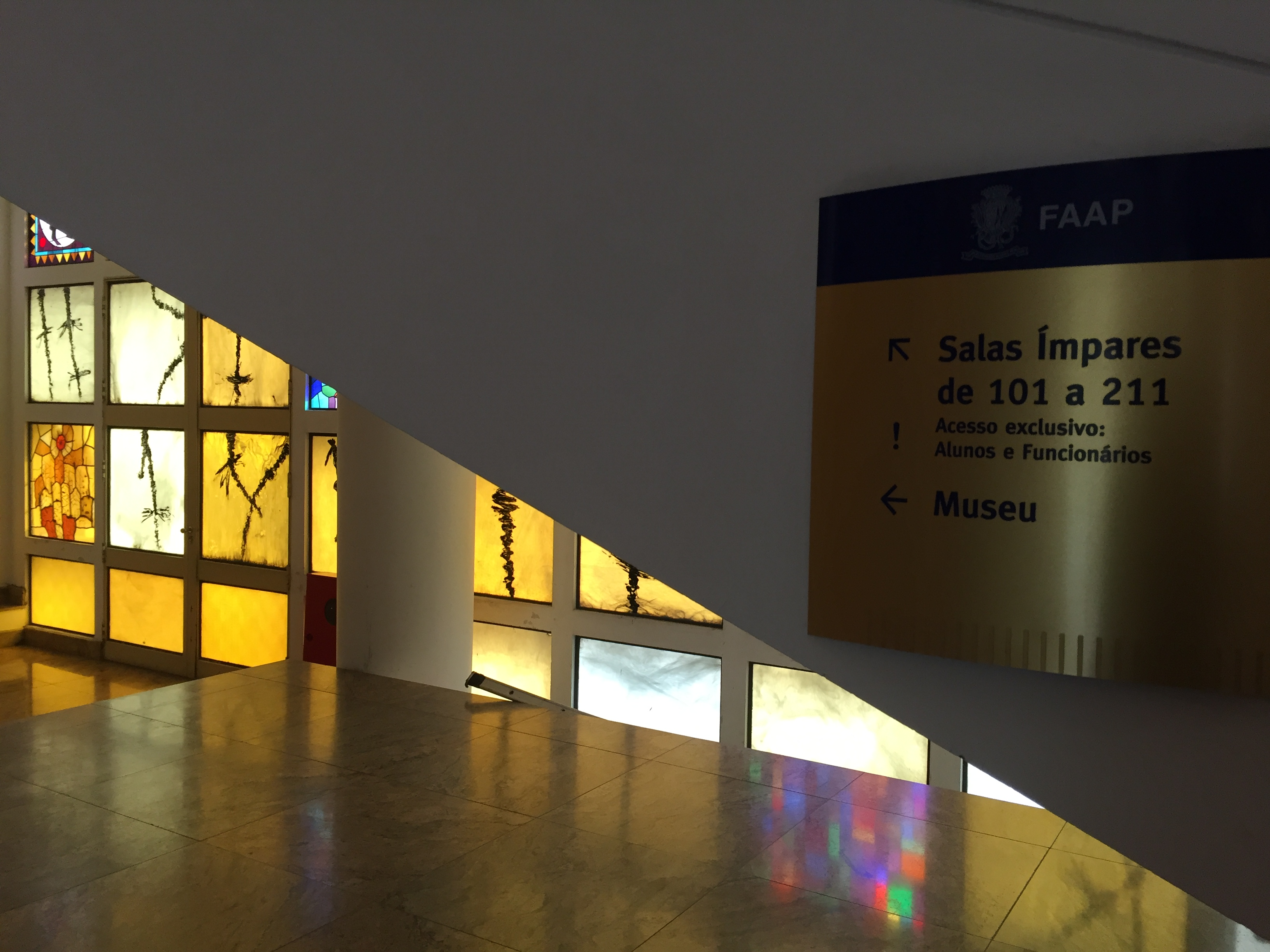 Foto interna do museu